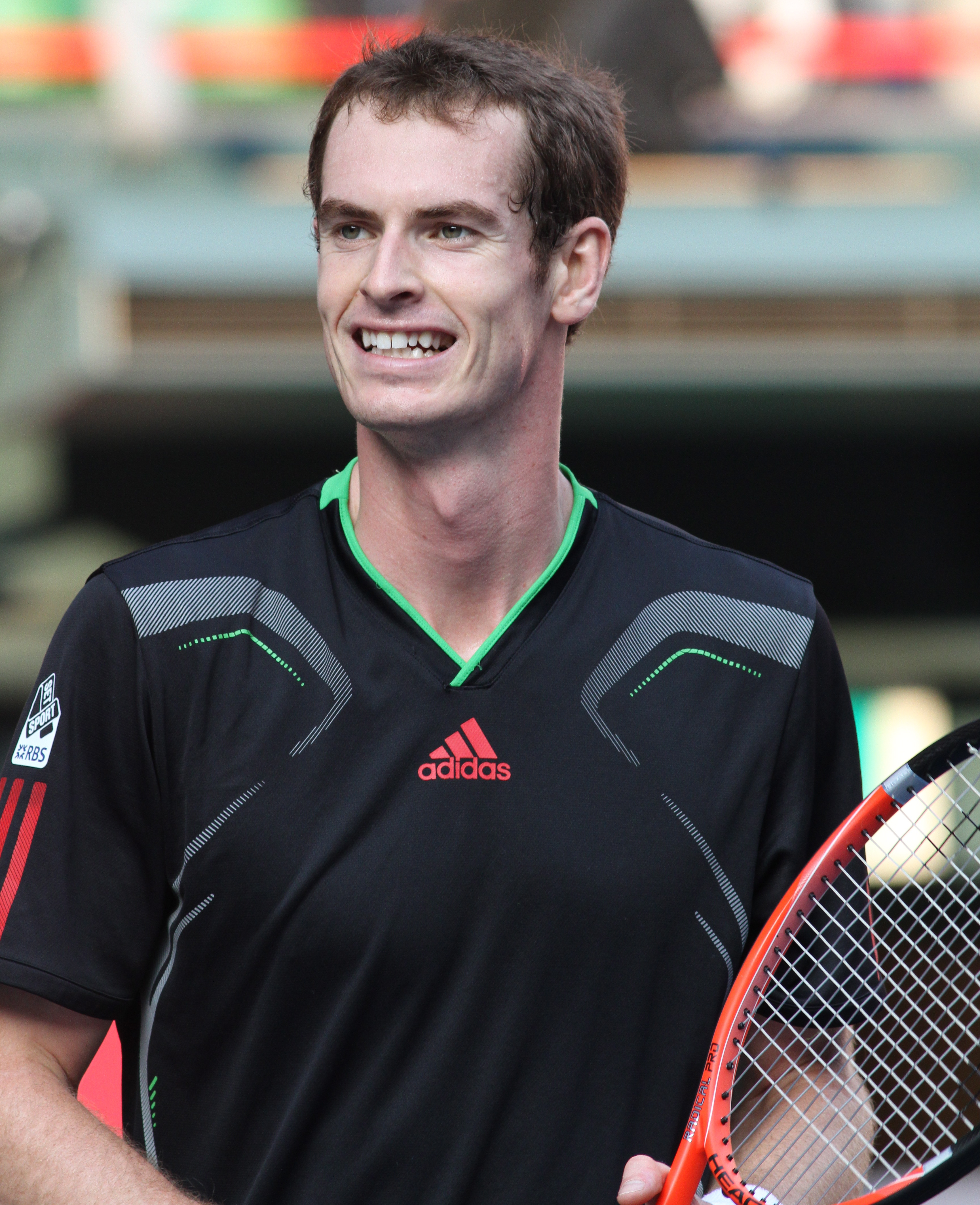 Andy Murray against David Ferrer